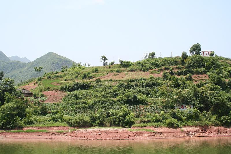 A view from the Yangtze looking at a sign showing the expected water level when the dam is completed. Notice the house and farm will both be under water. More at